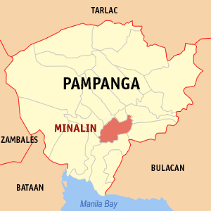 Map of Pampanga showing the location of Minalin